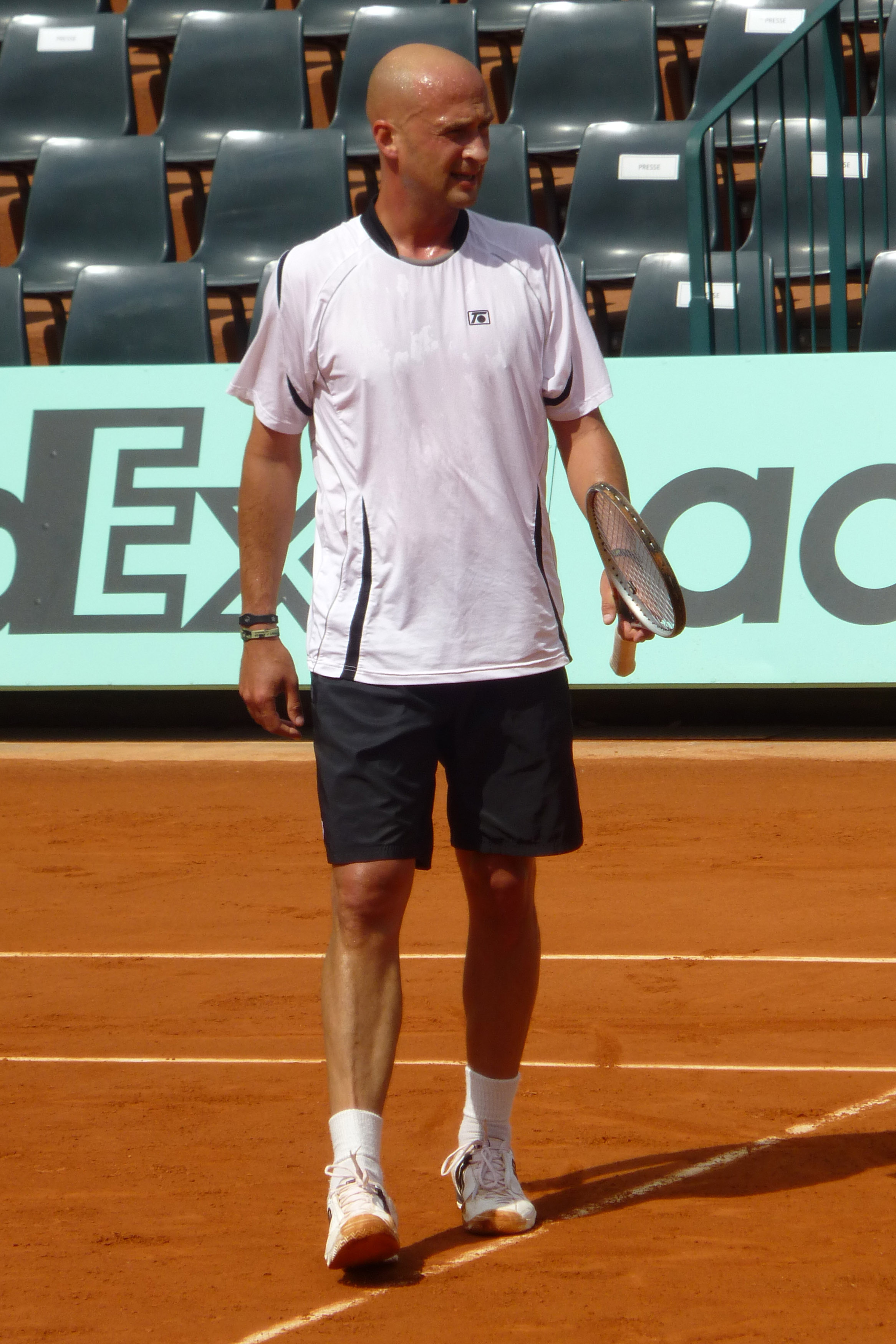 Andrey Medvedev. Exibition "legends" match during Roland Garros 2012